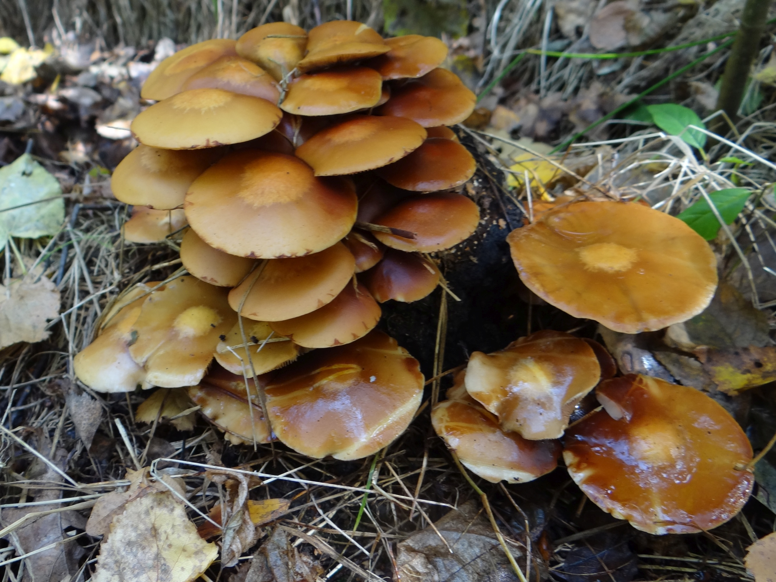 Galerina marginata (location: Poland, Rajbrot)